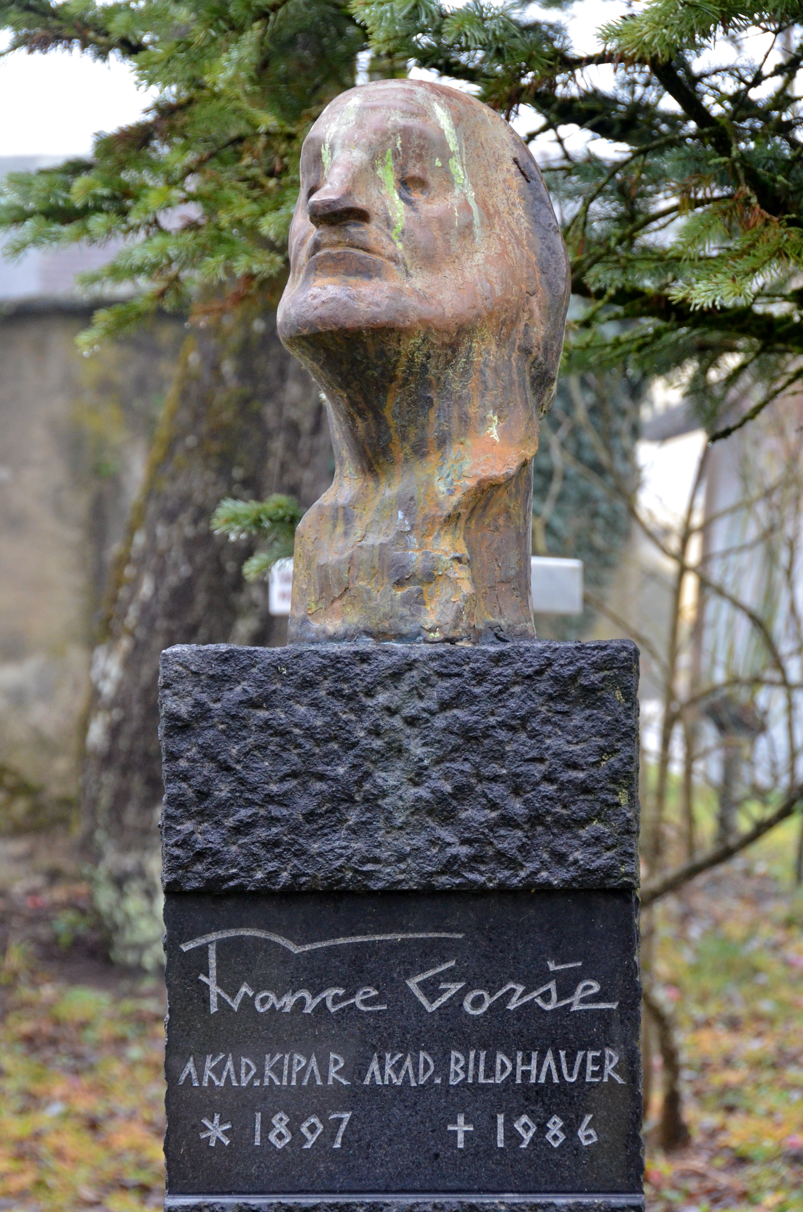 Bust as self-portrait of the Slovenian sculptor France Gorše at the cultural park at Suetschach, market town Feistritz im Rosental, district Klagenfurt Land, Carinthia / Austria / EU